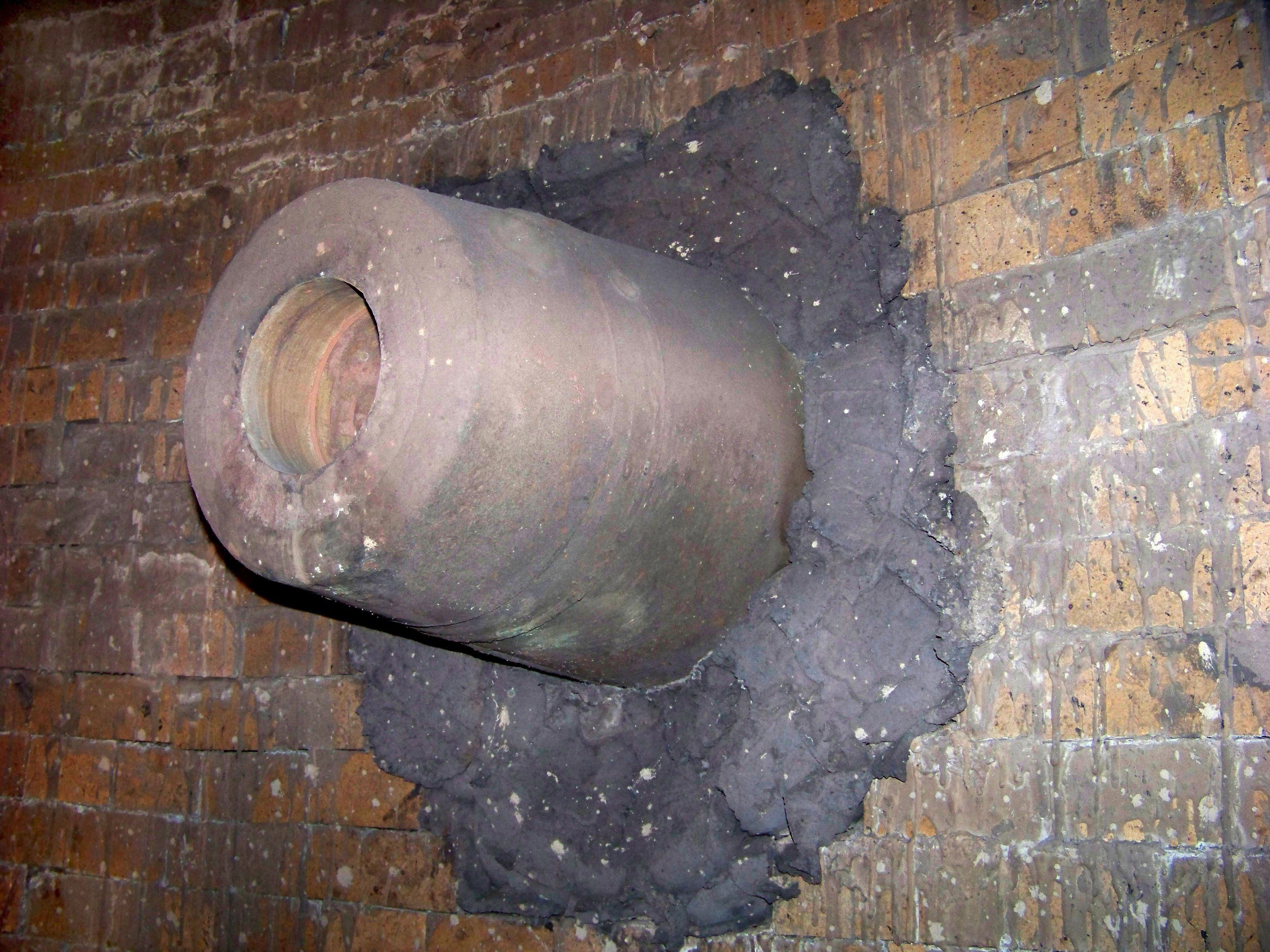 Blast furnace tuyere, view from inside of blast furnace.